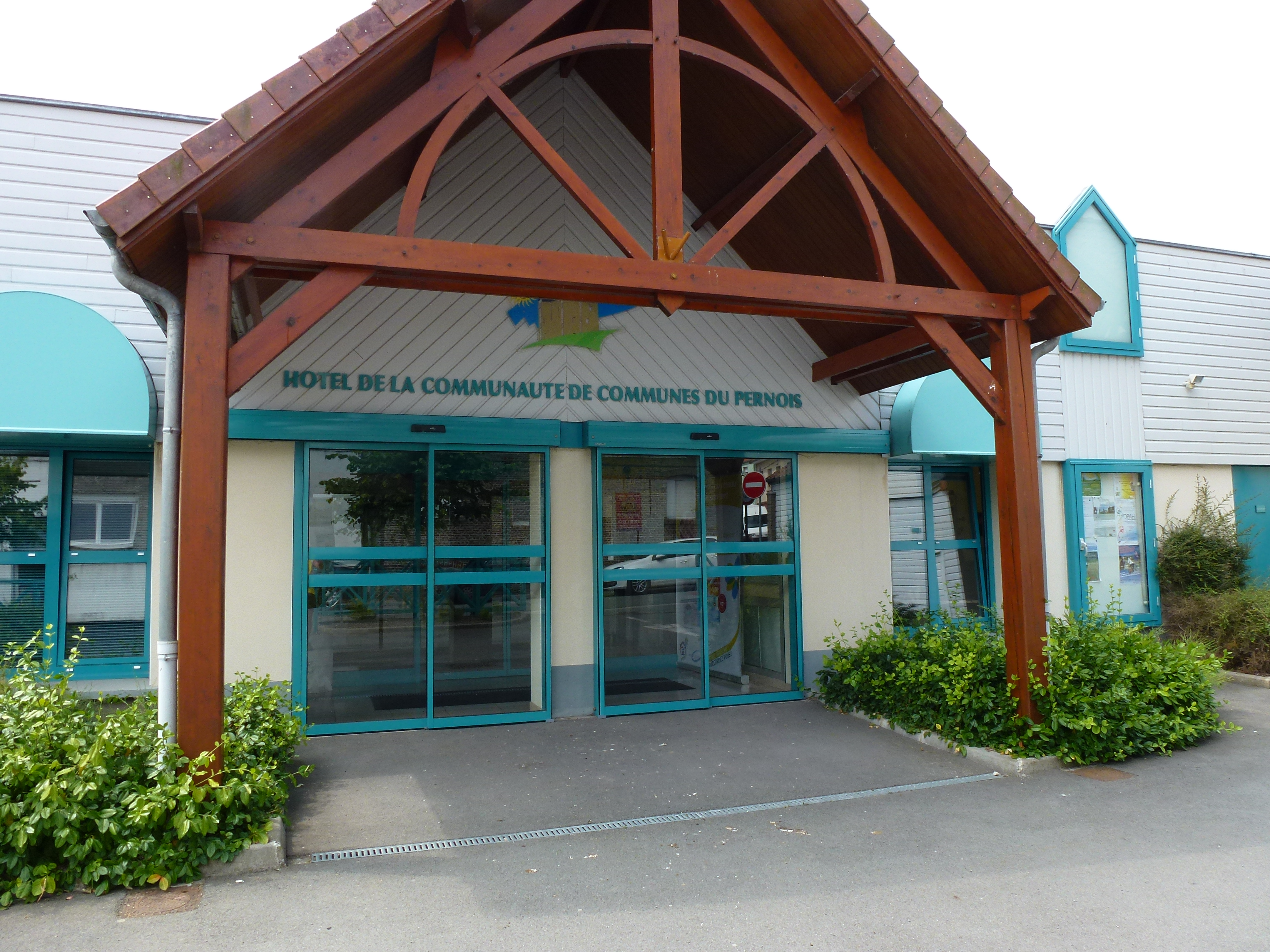 Pernes (Pas-de-Calais, Fr) Hotel de la Communauté de Communes du Pernois